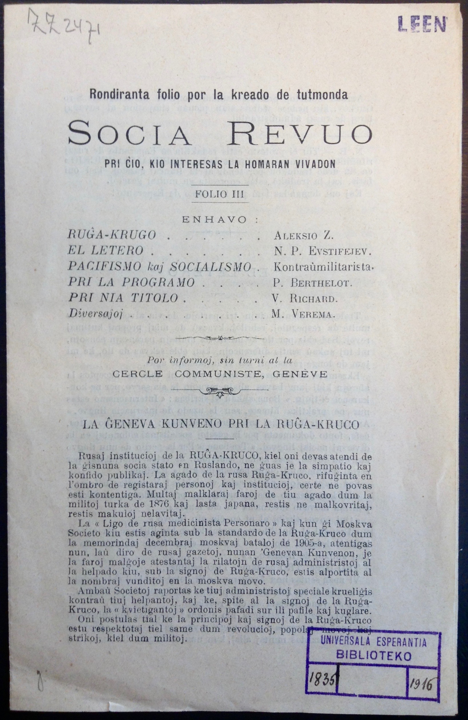 This is the 1906 front page of the 8-page long third installment of the predecessor of the Internacia Socia Revuo (International Social Review), which was published from 1907 to 1914, with a short revival in 1920.